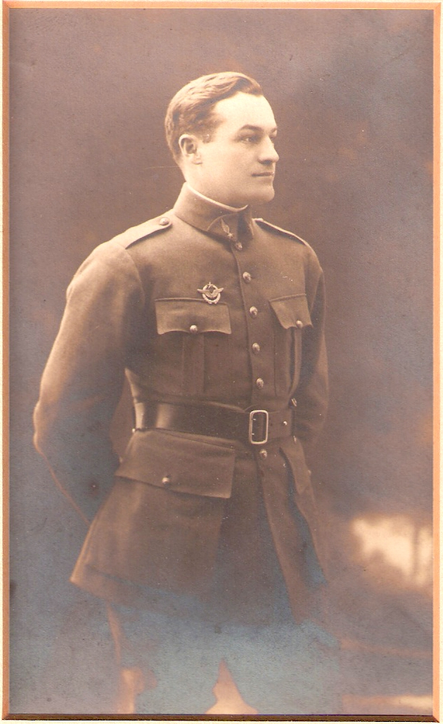 Portrait of aviator Willis Bradley Haviland circa 1917